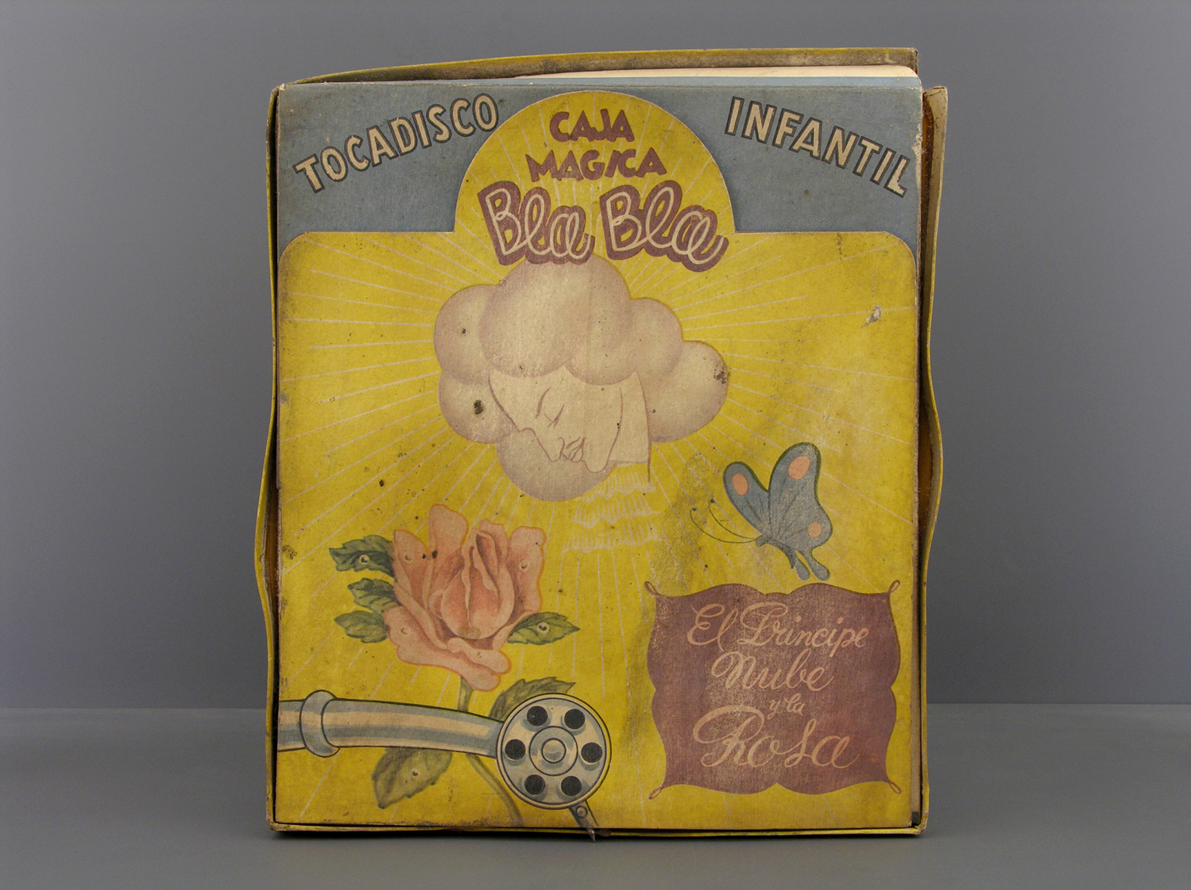 Bla Bla Caja Mágica recordplayer cardboard and metal mid 20th century